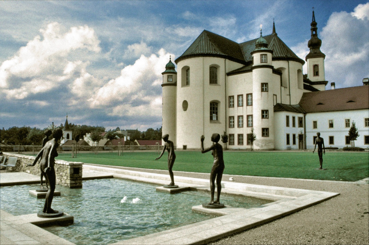 Litomyšl, monastery, in front sculptures by Olbram Zoubek